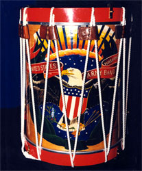 U.S. Army Herald Trumpets drum